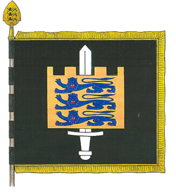 estonian military flag